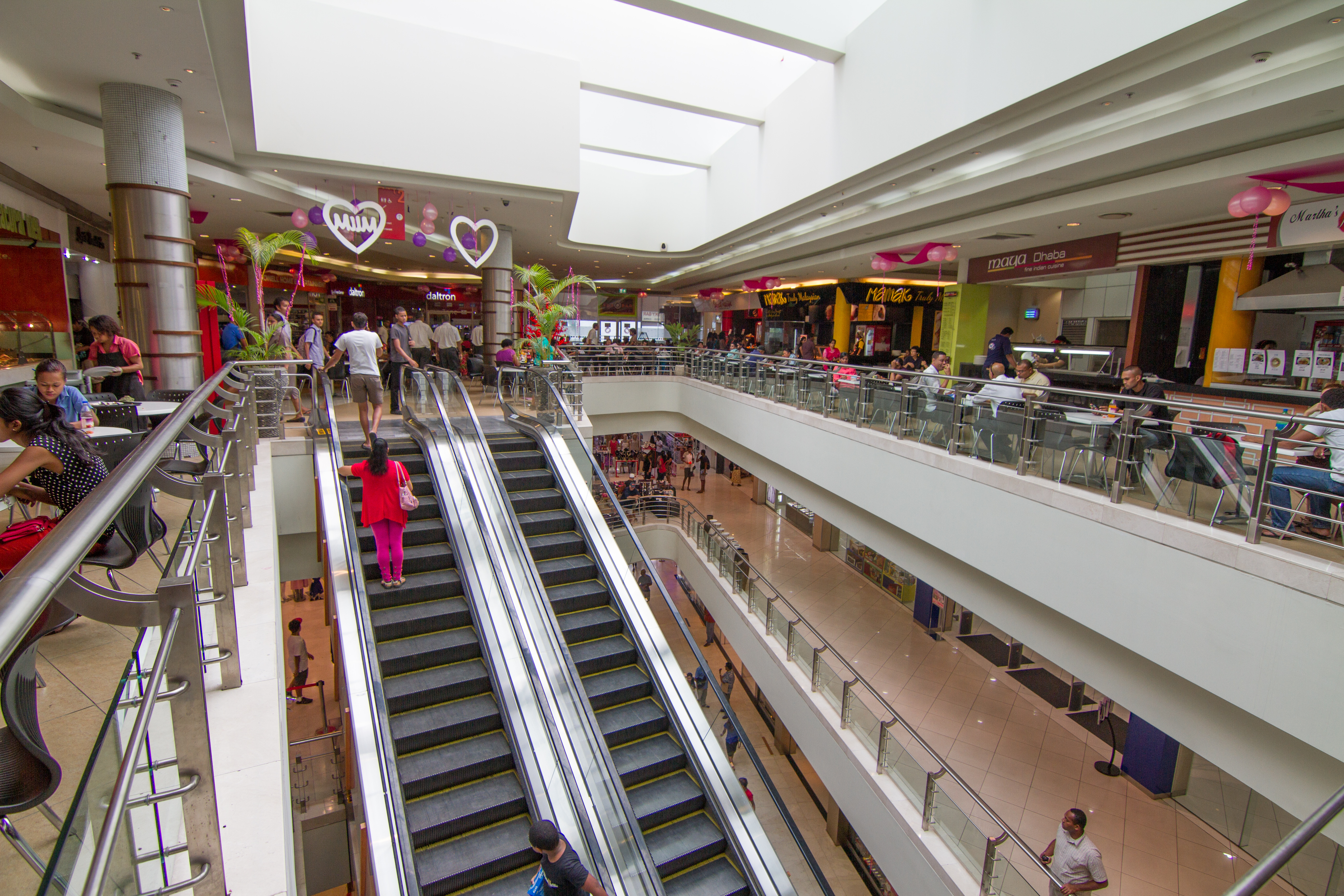 MHCC centre, Suva, Fiji